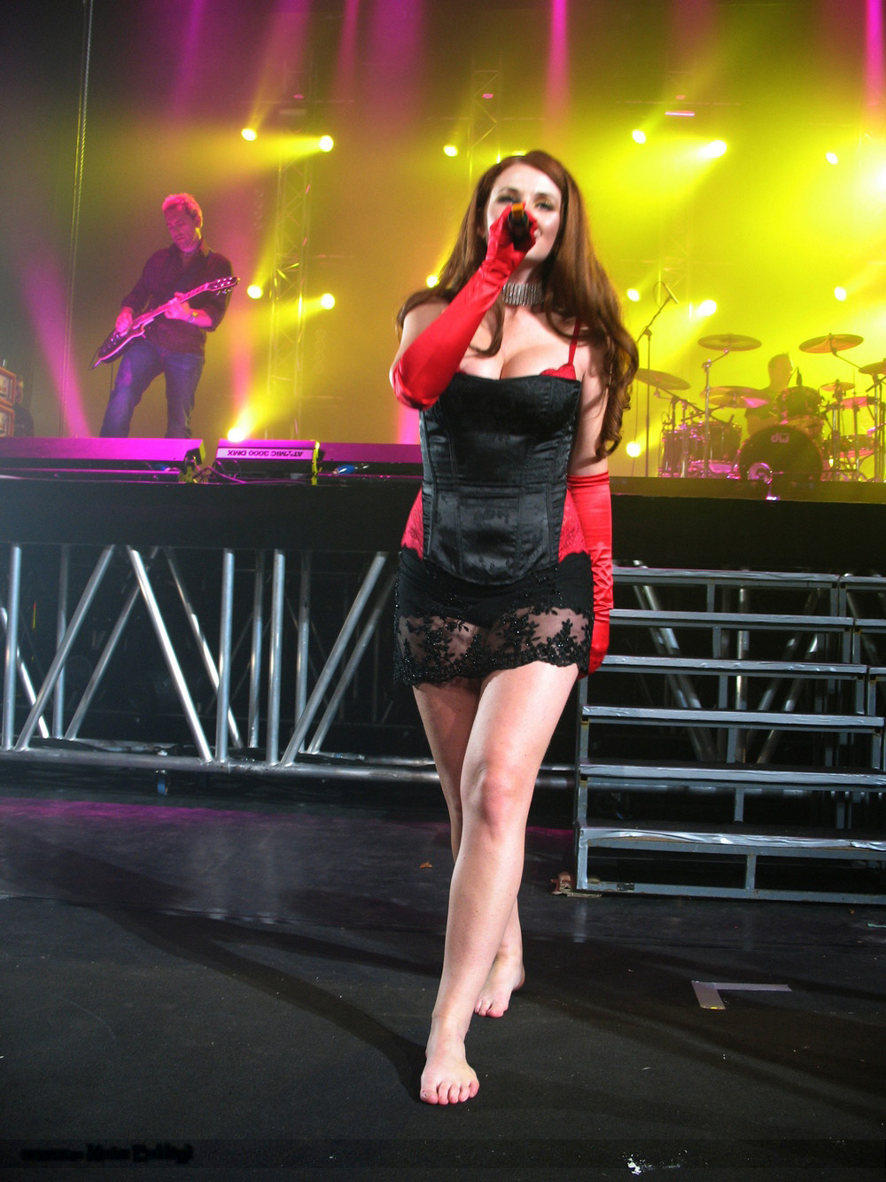 t.A.T.u. Bacardi B-LIVE in Moscow (Lena Katina)